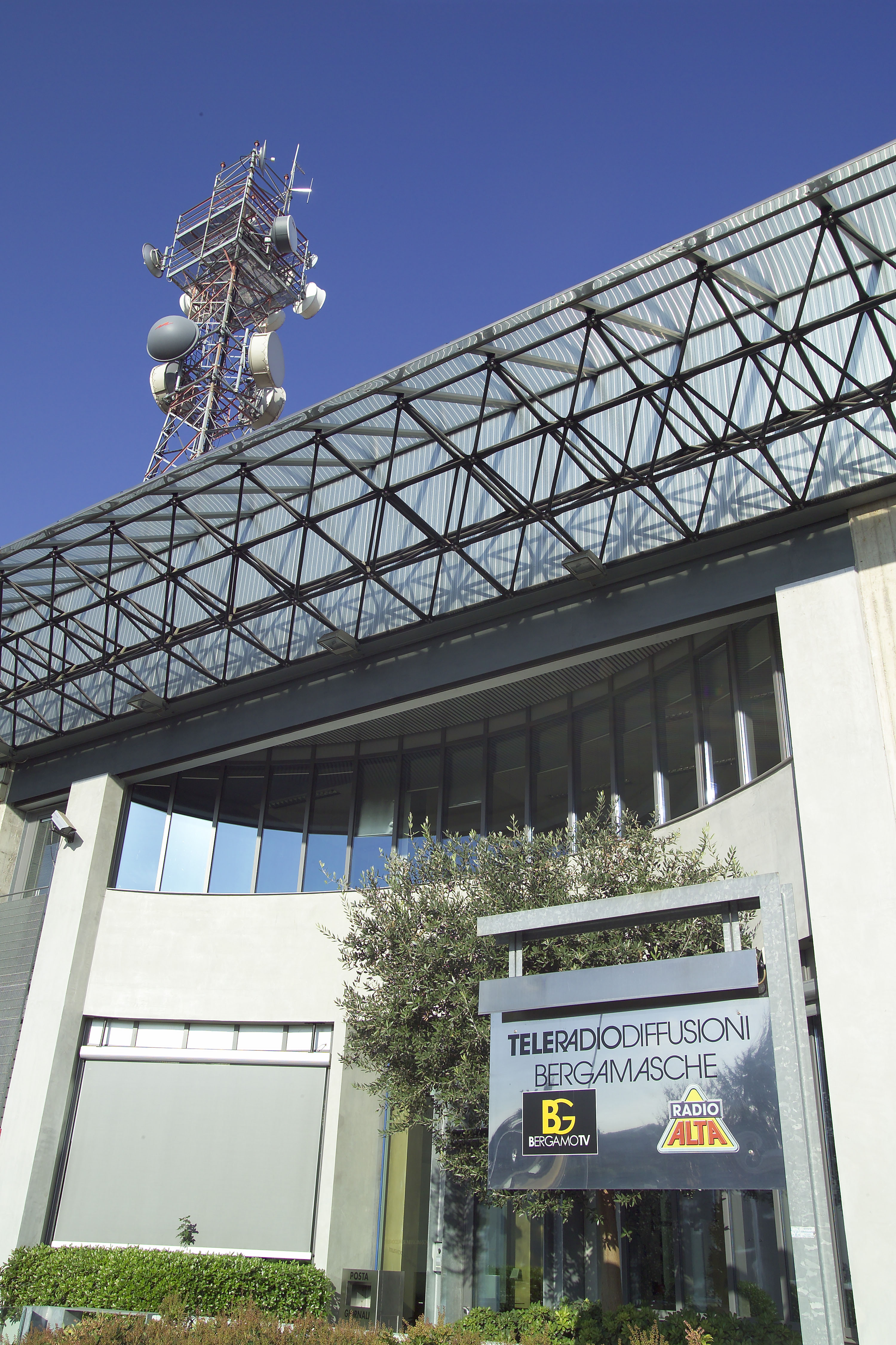 Sede di Radio Alta e di Bergamo TV